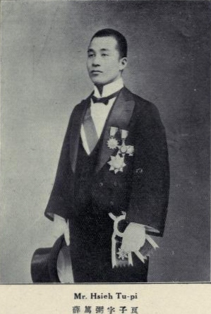 Xue Dubi, Ziliang (1892 - 1973)